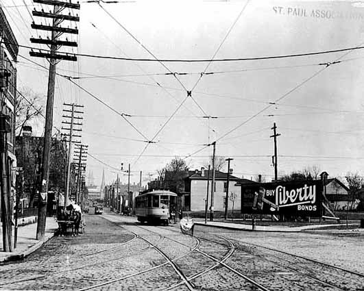 Ramsey and Seventh Streets; Liberty Bonds billboard on corner, St. Paul.